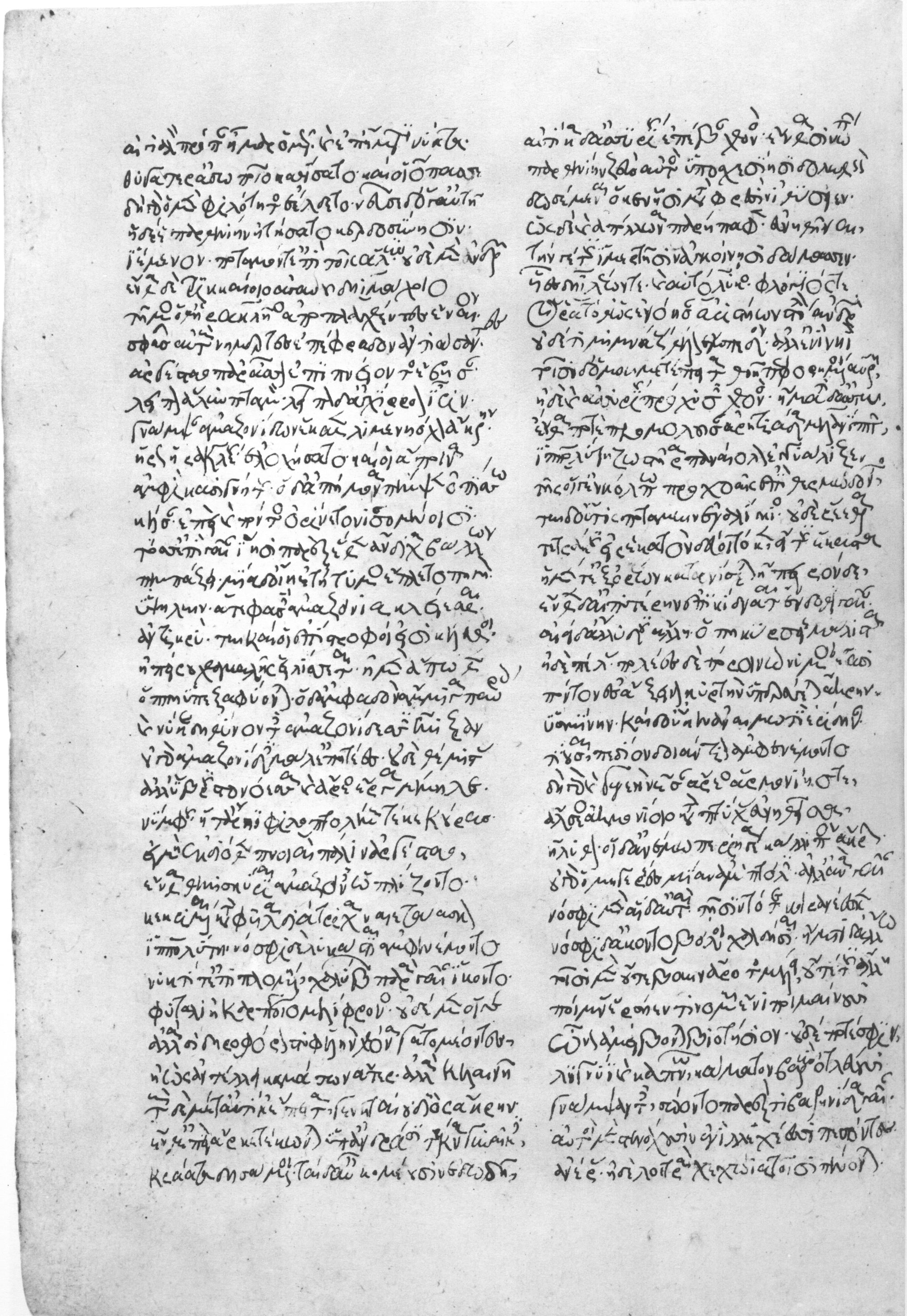 Apollonius of Rhodes, Argonautica, in ms. Florence, Biblioteca Medicea Laurenziana, Plut. 32,16, fol. 207v.